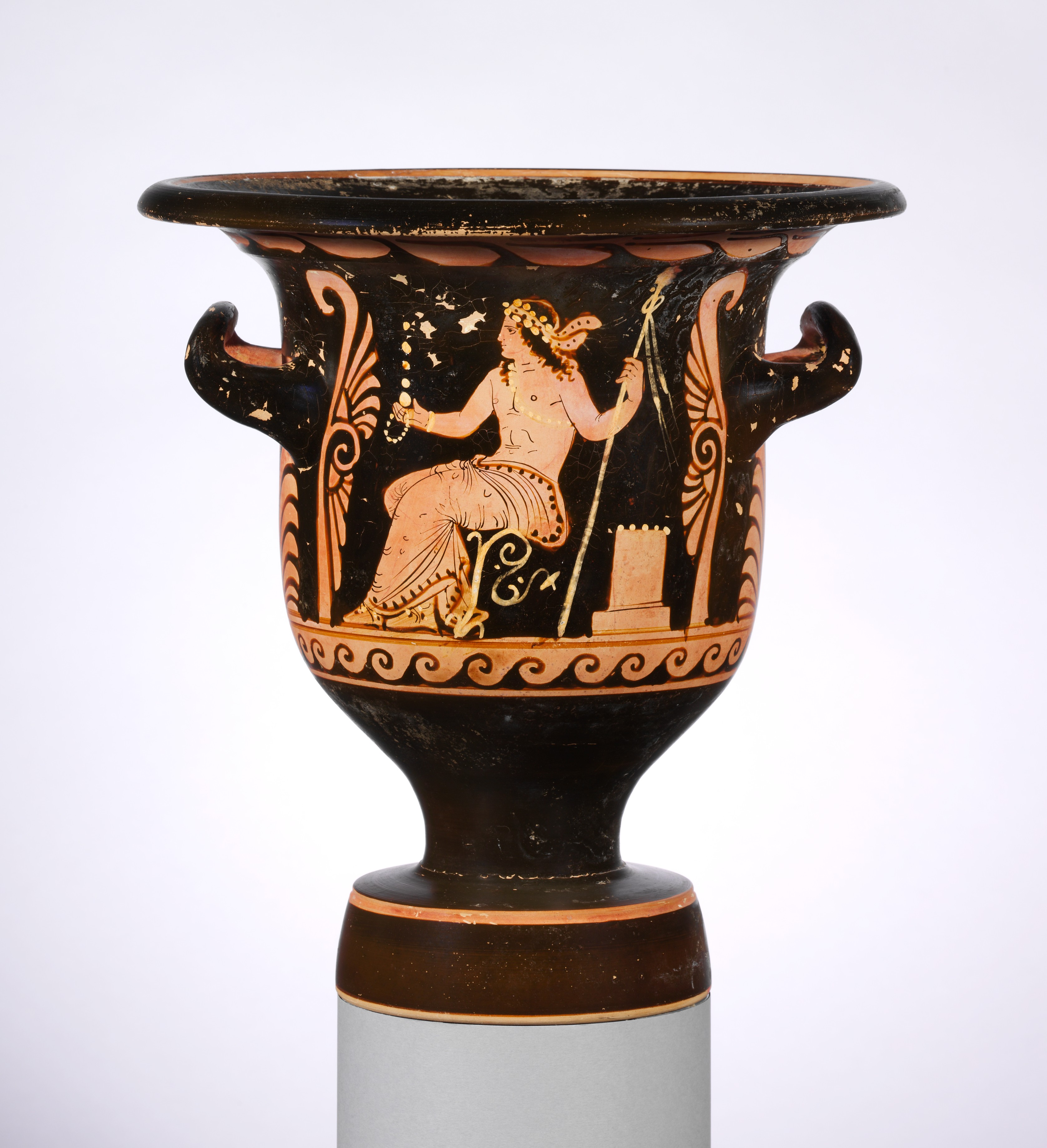 Greek, South Italian, Paestan; Bell-krater; Vases; Obverse, seated Dionysos; Reverse, satyr with phiale